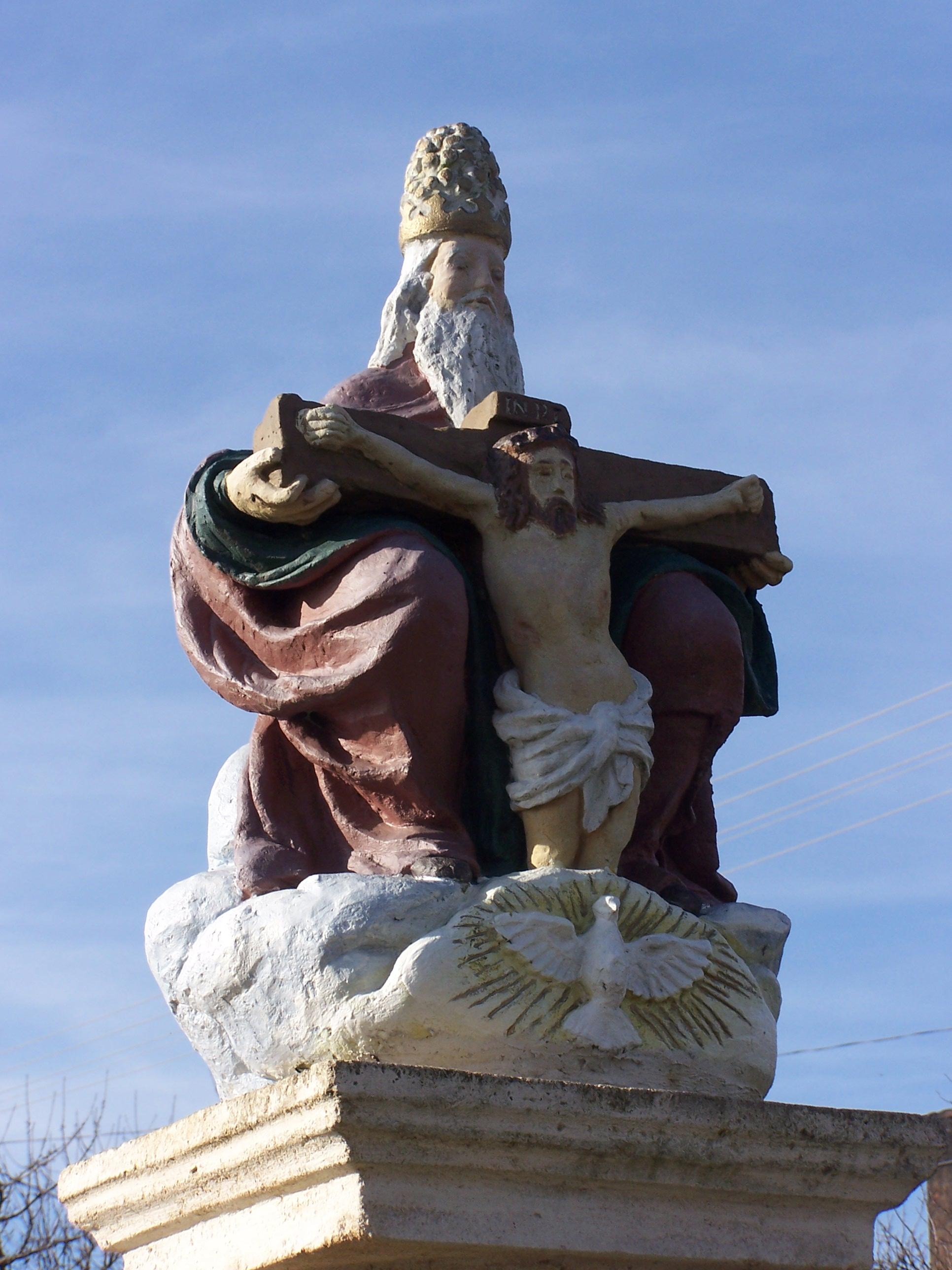 Statue of the Holy Trinity, Maglóca, Hungary This is a photo of a monument in Hungary, Identifier: 4508